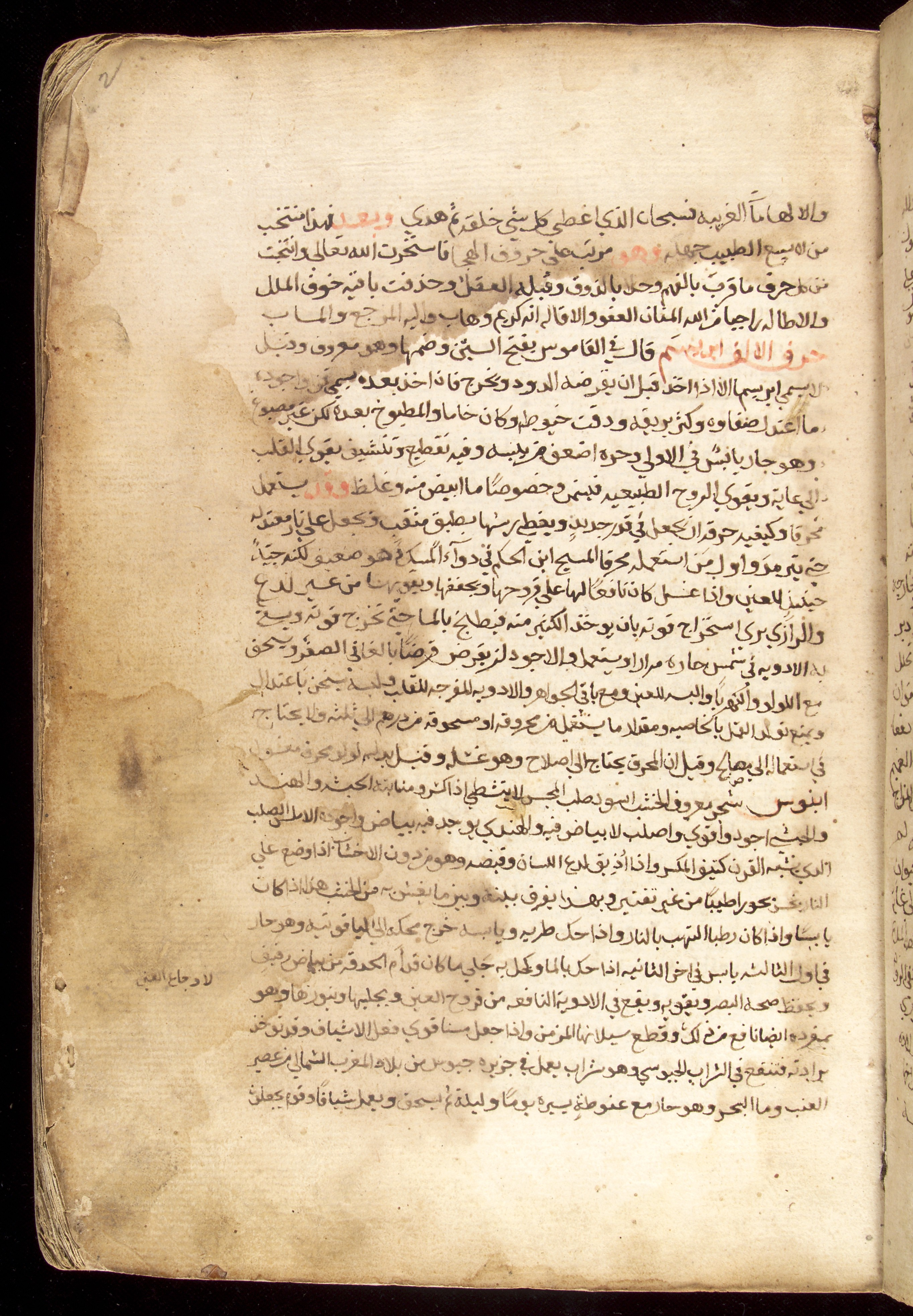 Page from Kitab Tibb al-Fuqara' wa-l-Masakin, an Arabic medical text in naskh script, Asian Collection Keywords: Arabic